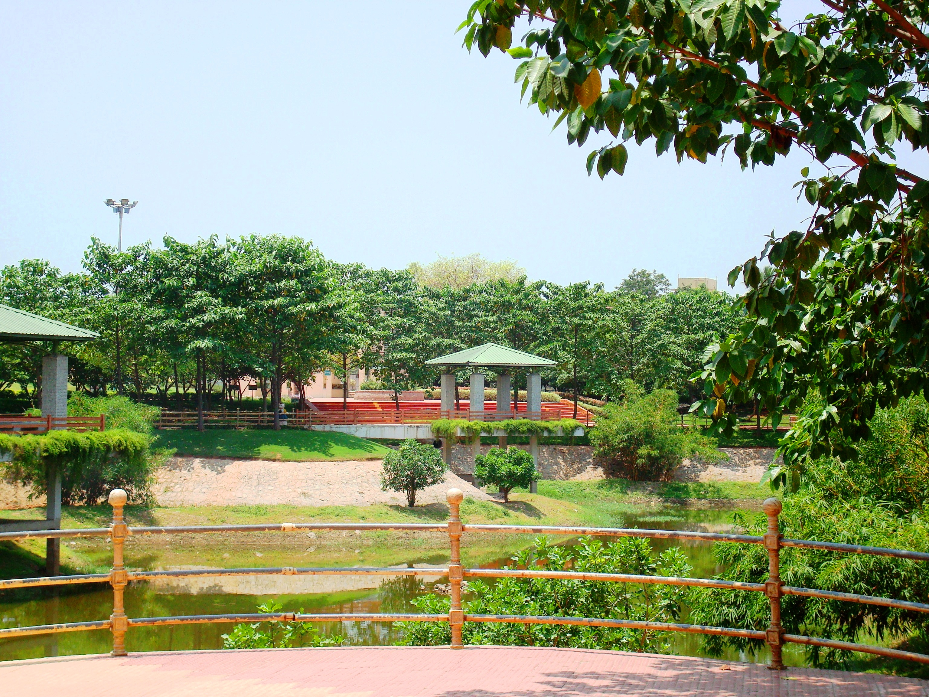 This image shows the Laxmi yadav park at Sanathnagar, a recent addition to this area.